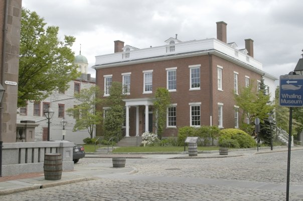 Andrew Robeson House (c.1812), Massachusetts